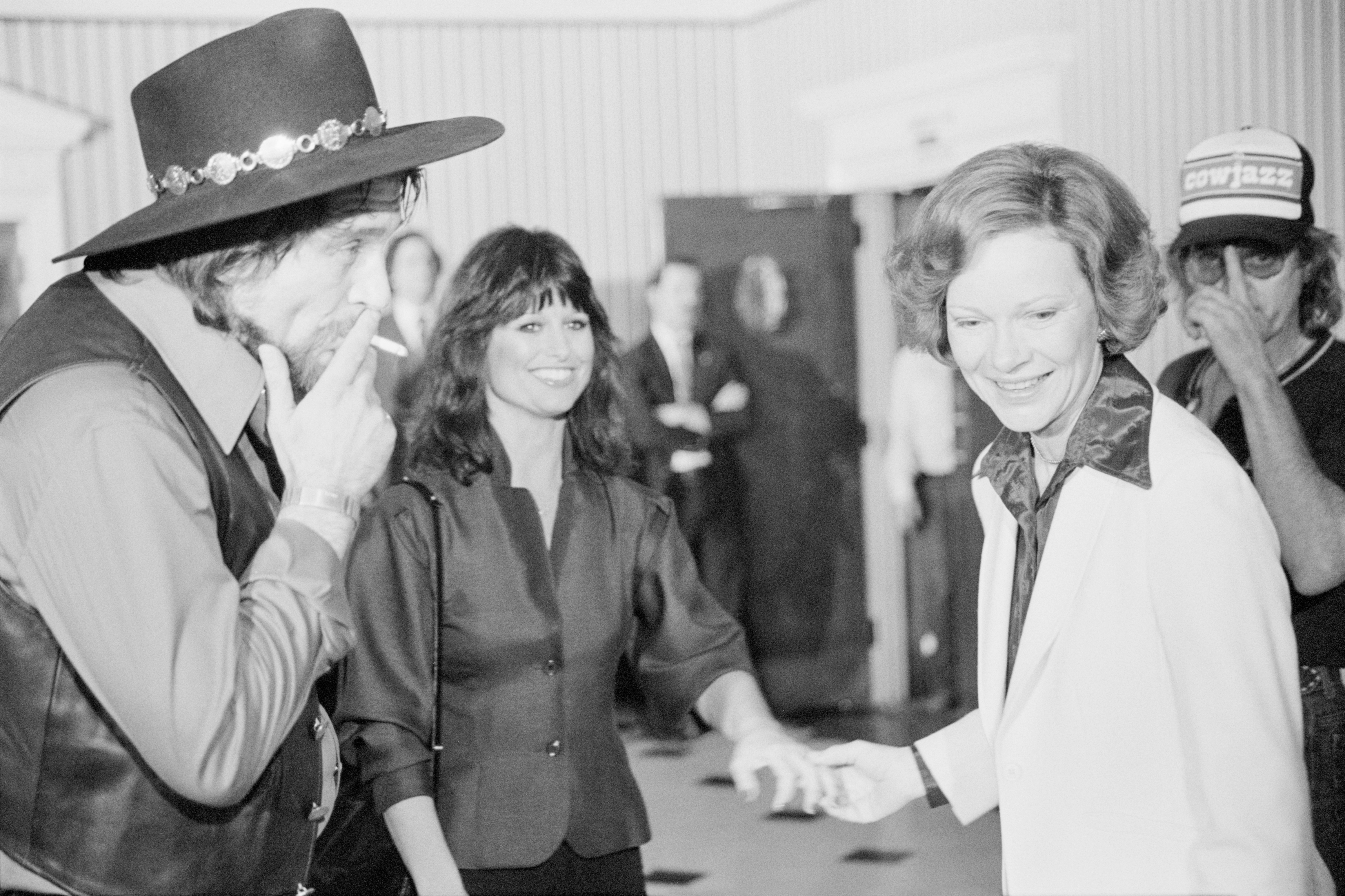 First Lady Rosalynn Carter (right) with Waylon Jennings (smoking a cigarette) and Jessi Colter at a reception preceding a concert to benefit the Carter-Mondale campaign